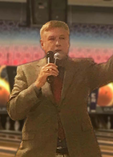 American sportscaster Dave Lamont (correct spelling: LaMont) at a Professional Bowlers Association bowling tournament on August 18, 2019 in Middletown, Delaware, U.S. Backlit subject required me to brighten subject and darken background. Background was also digitally Gaussian-blurred in Photoshop.